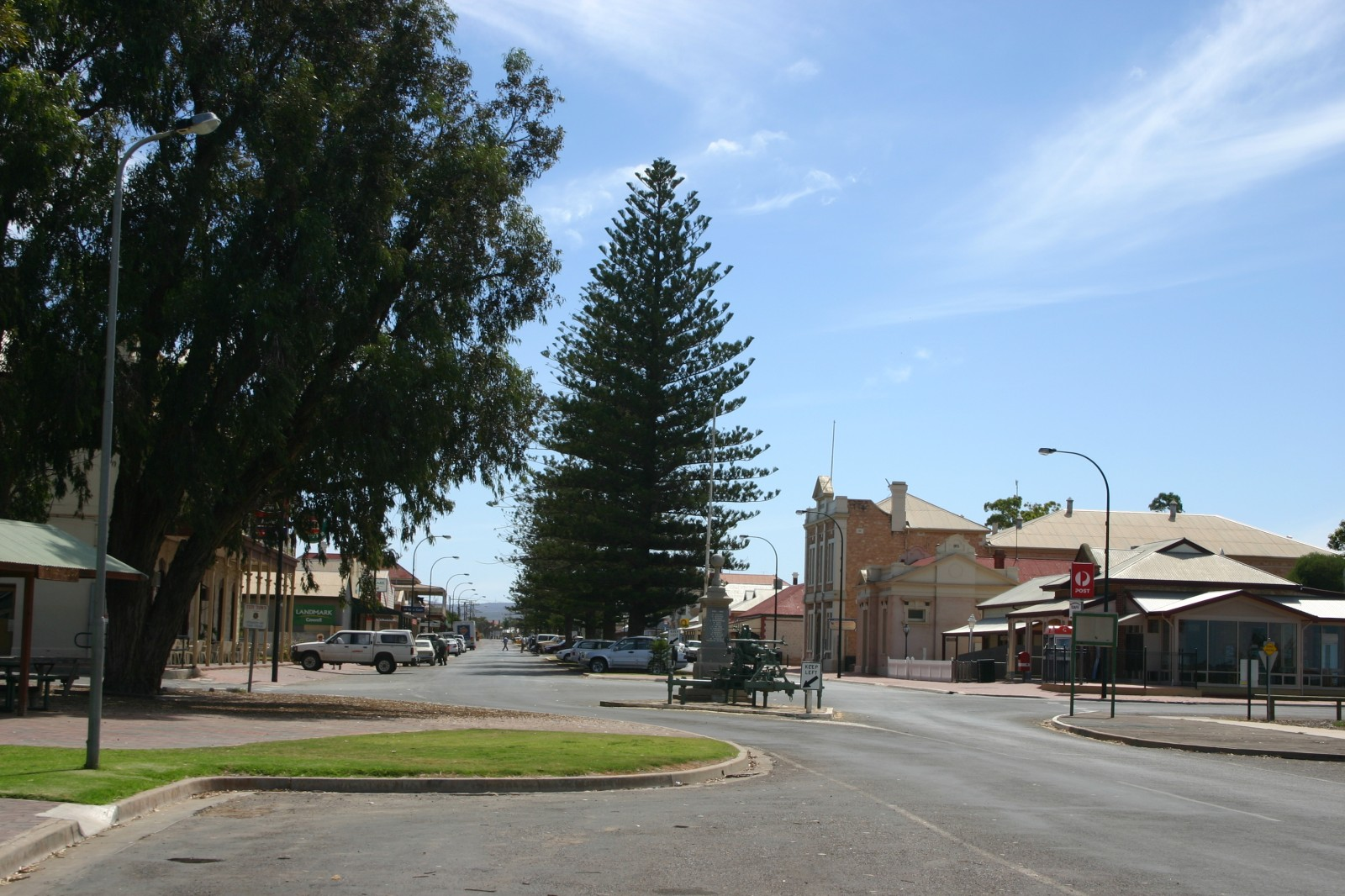 Photo of main street of Cowell. I took this photograph in March 2006. Takver ( It is Released under GNU FDL.